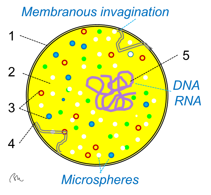 The hypothetical structure of protobiont